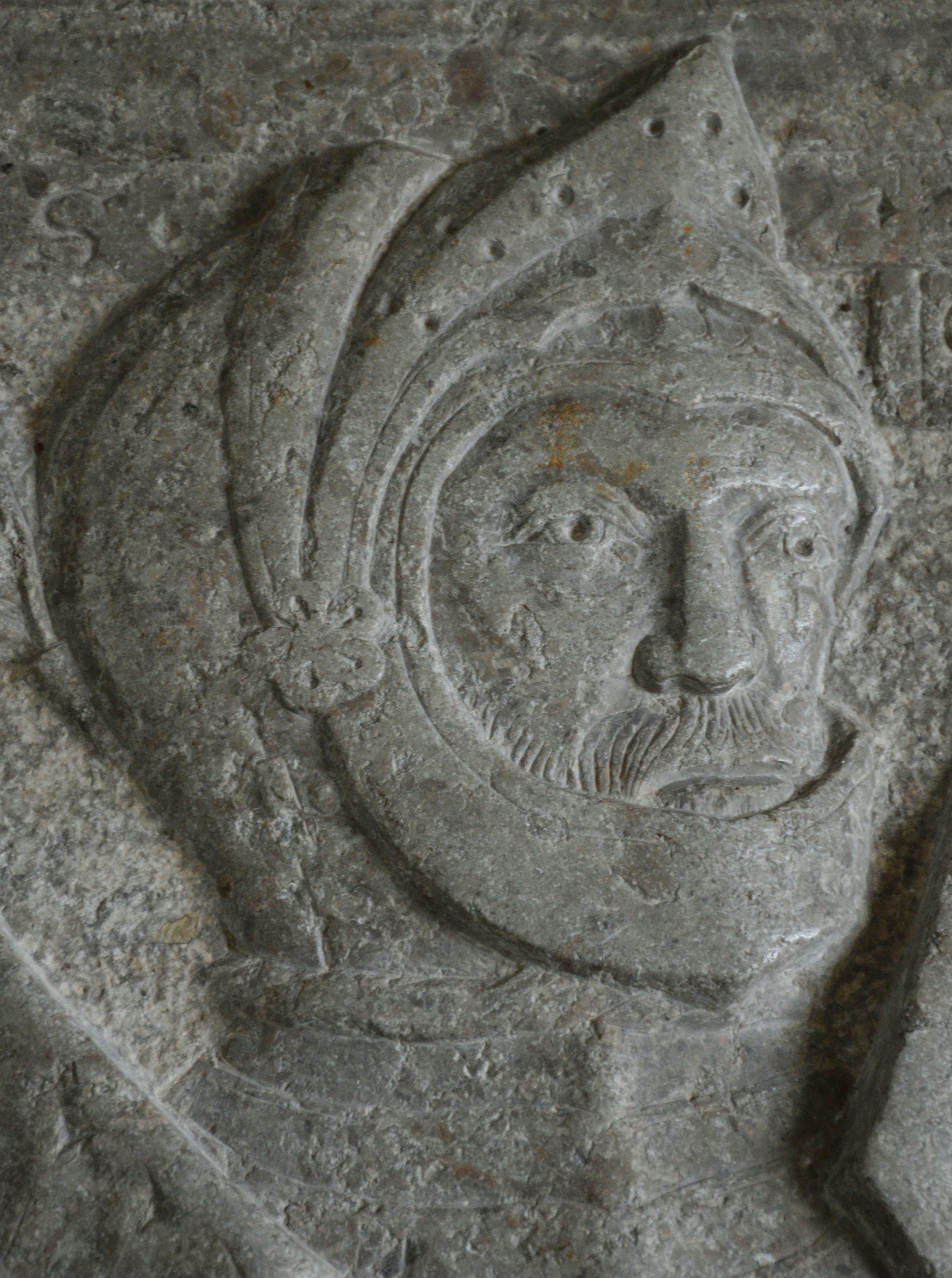 Sten Rosensparre 1523-1565, danish noble man, relief from his gravestone in Skarhult church, Skarhult, Eslöv, Sweden